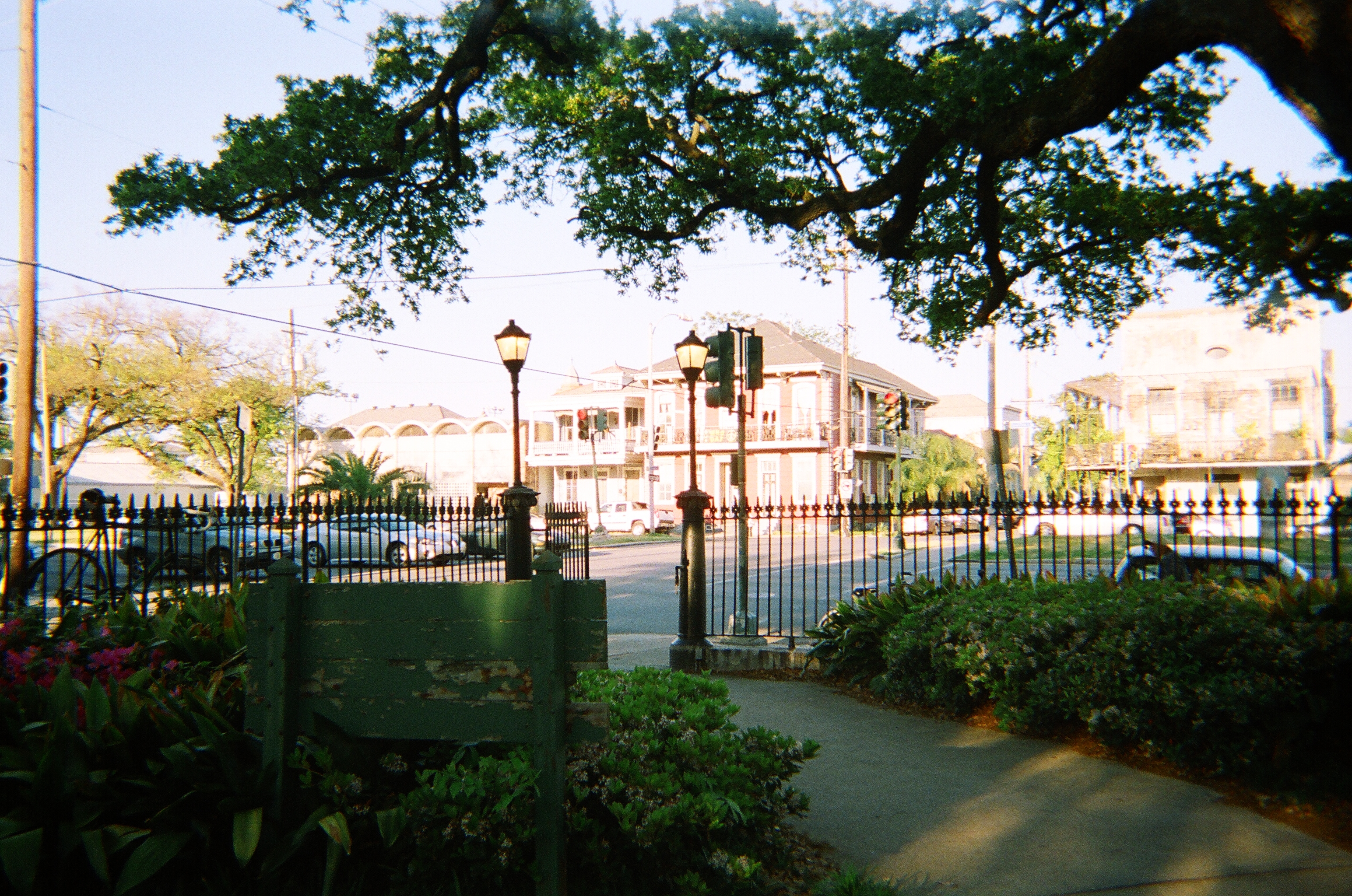 Washington Square, New Orleans, Louisiana. View towards Elysian Fields Avenue & Dauphine Street.